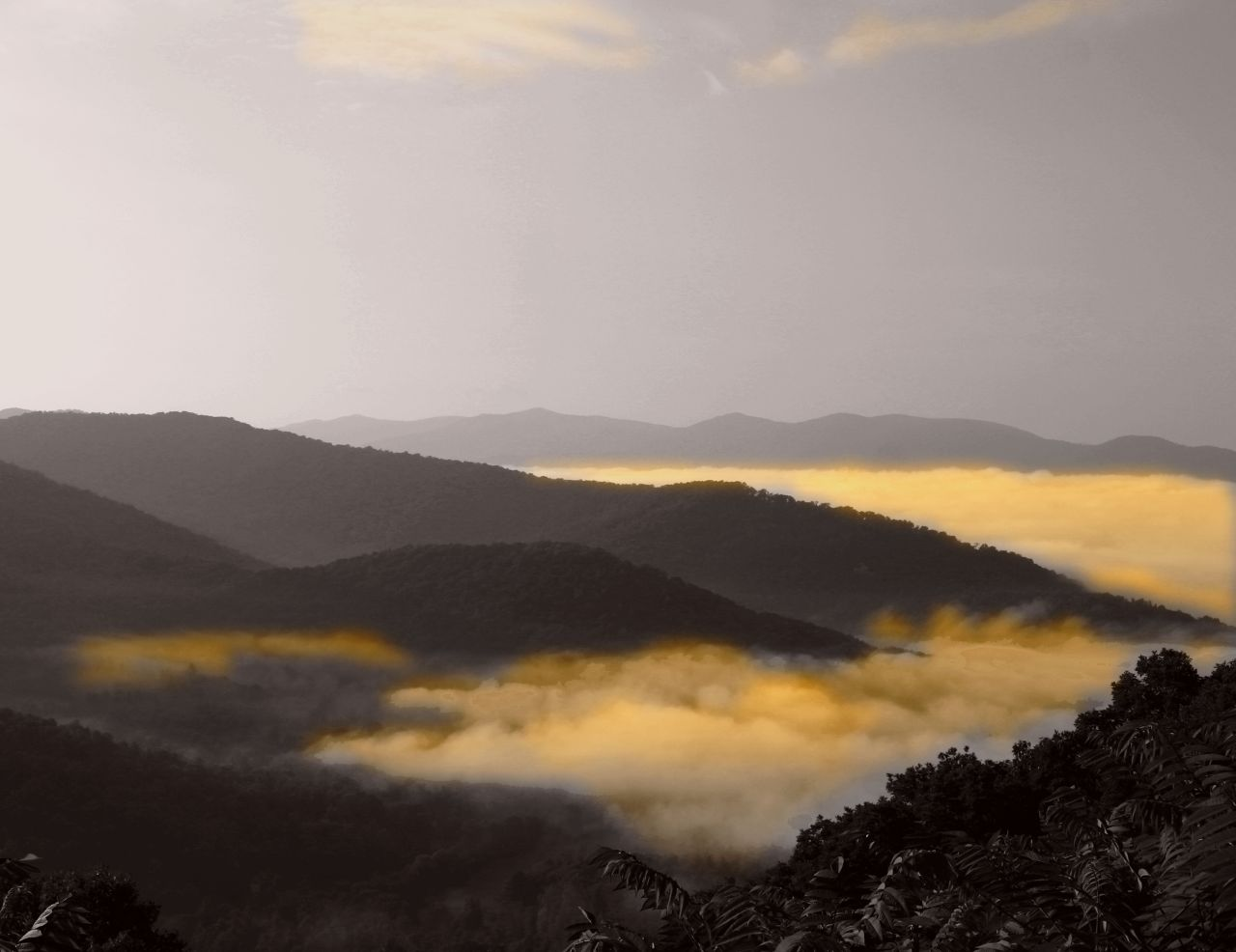 Tanabark Overlook, Blue Ridge Parkway. Blue Ridge Mountains, North Carolina, USA.Blue Ridge Parkway-Tanabark Overlook